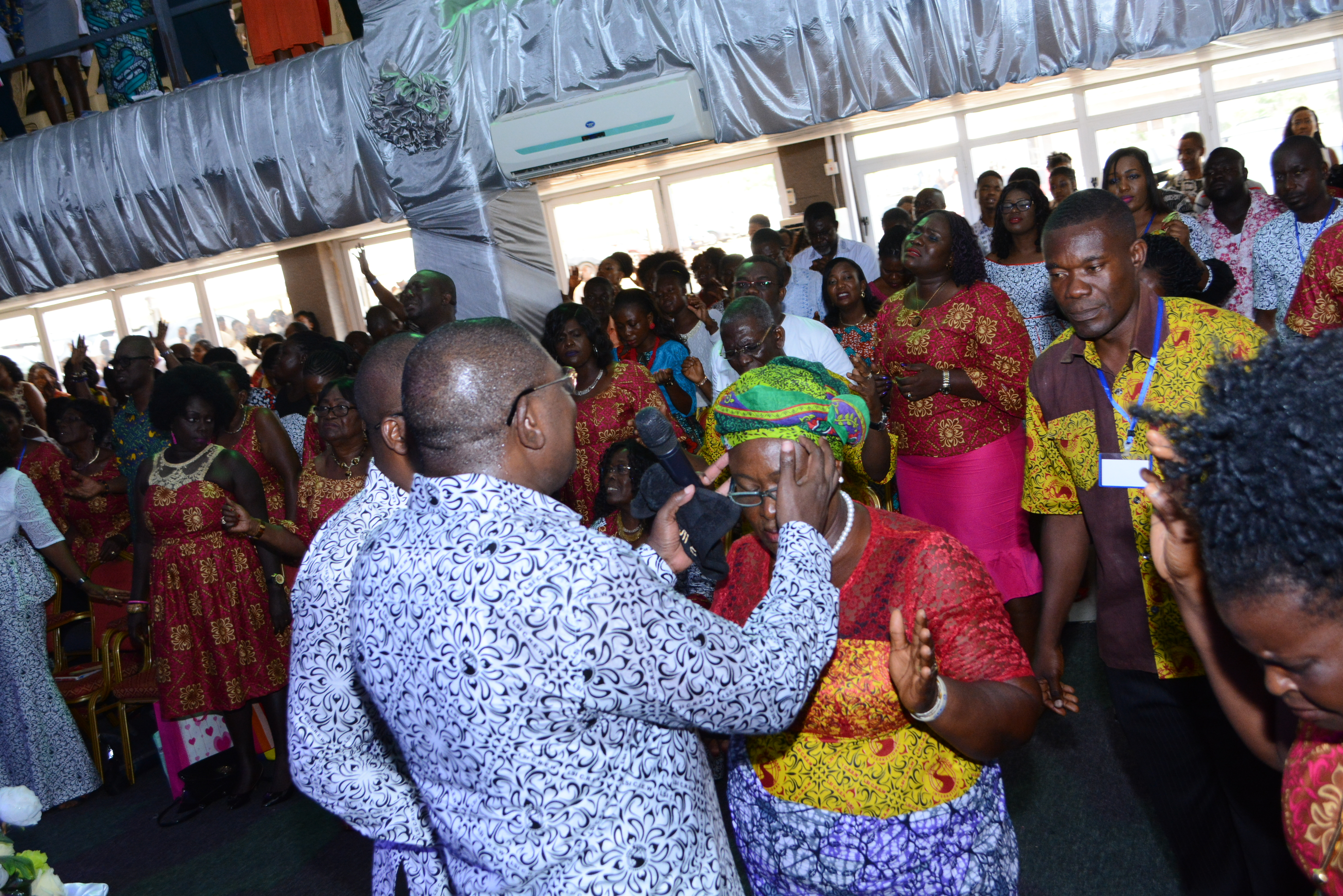 Laying on of hands, Dr. Ebenezer Markwei, Living Streams International, Accra, Ghana